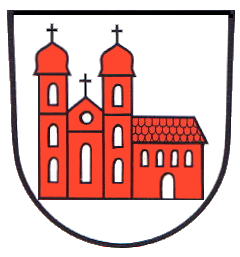 Coat of arms of St. Märgen Licensing